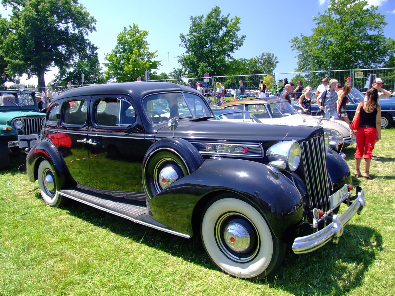 Packard Super Eight Touring Sedan model 1703 (1939). European Headlamps.